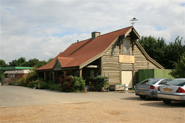 Abbey Parks farm shop A popular farm shop and cafe on the A17 not far from Sleaford.